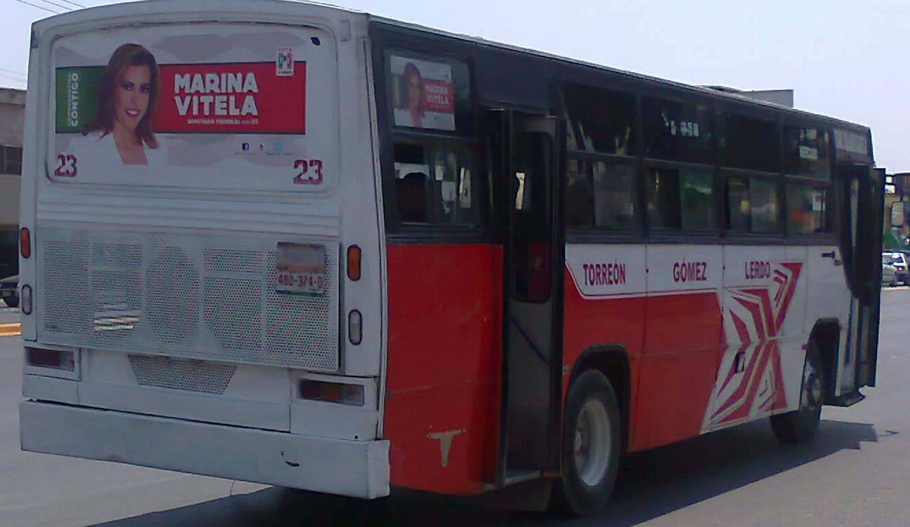 CAIO Vitória bus (#23) in Mexico.